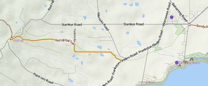 Map of the Red Hill Rail Trail. Cartography by Steve Bennett, data by OpenStreetMap contributors.